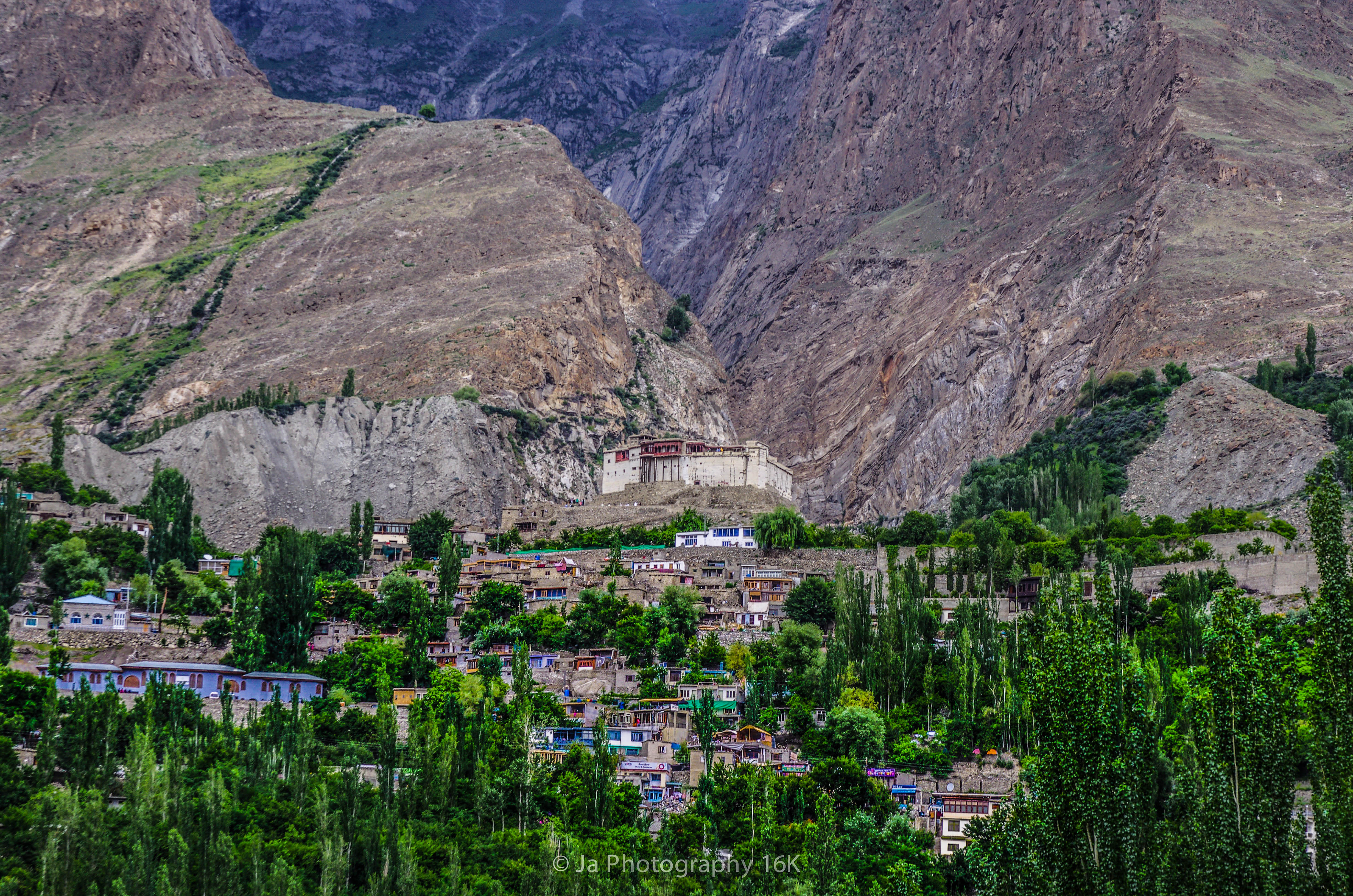 Karimabad Hunza